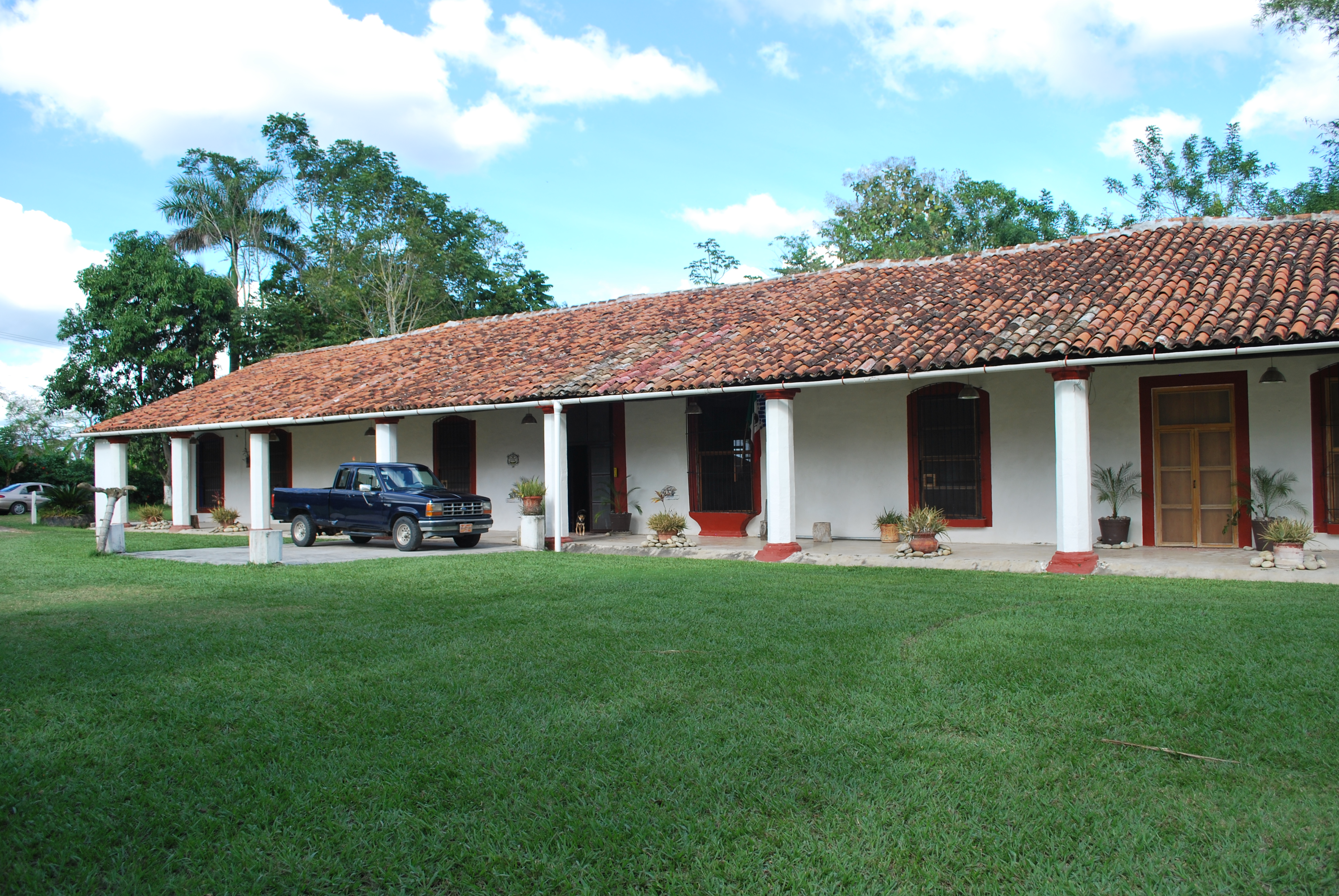 Main house of the La Chonita Hacienda in Tabasco, Mexico